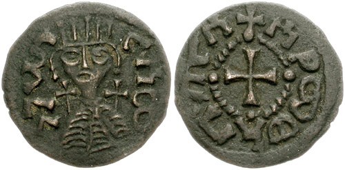 Coin of the Axumite king Gersem